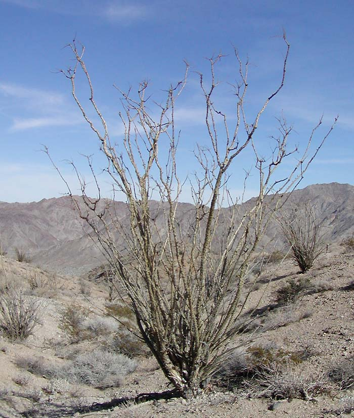 Photo of Fouquieria splendens in hills above Palm Springs